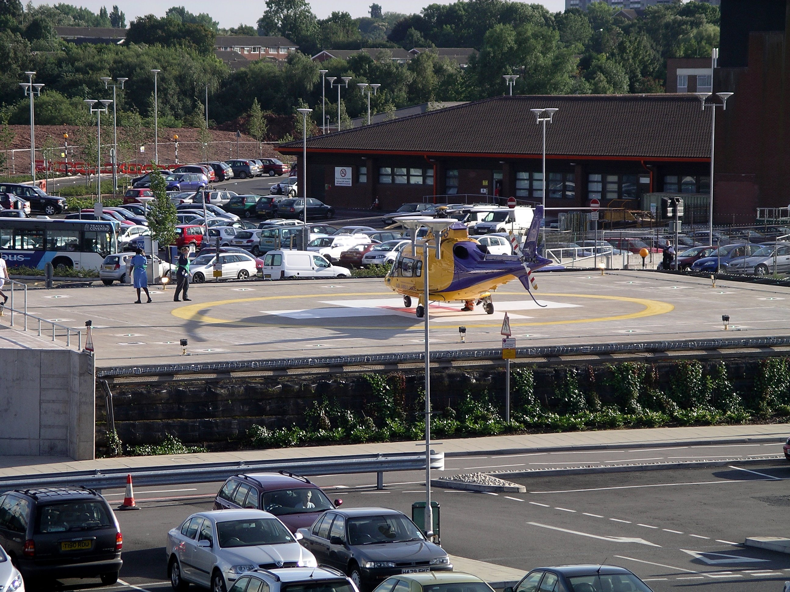 photo of an air ambulance on the helipad at University Hospital Coventry, Walsgrave, Coventry, England.